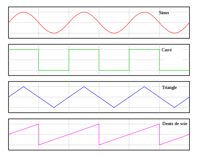 This shows several waveforms: sine wave, square wave, triangle wave, and rising sawtooth wave.